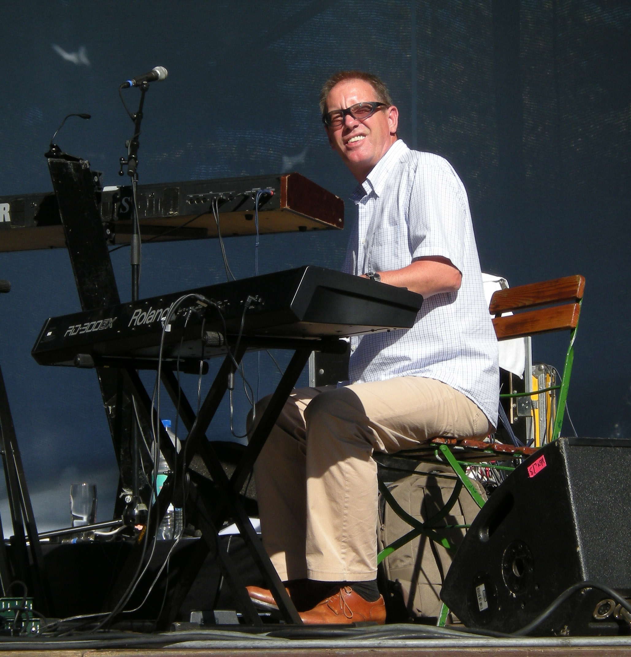 see file name, and